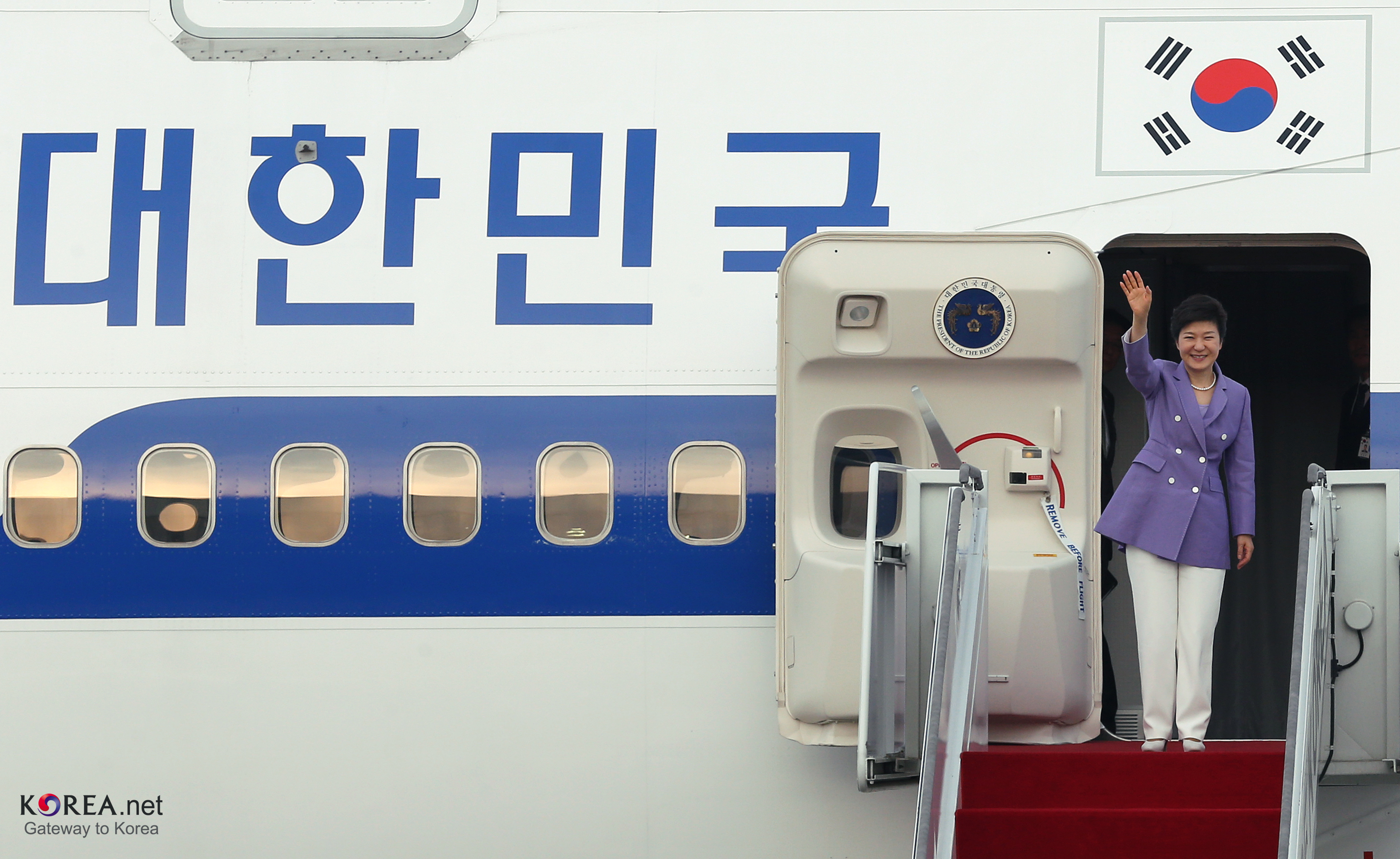 President Park Geun-hye waves hands after arriving at Seoul Airbase in Seongnam, Gyeonggi-do(Gyeonggi Province) on May 10 after finishing her six-day U.S. trip.